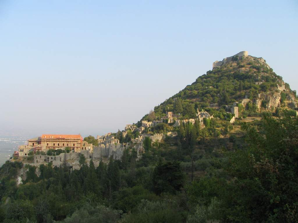 This is the old Byzantine city of Mystras in Lakonia. It is located a few kilometers away from Sparta.